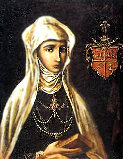 Halszka z Ostroga